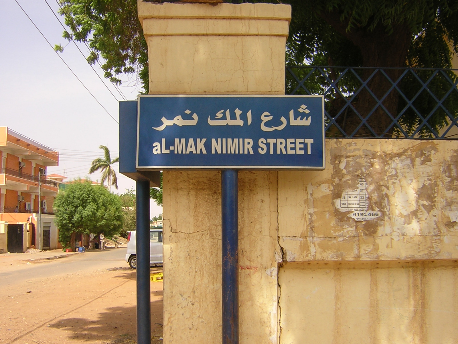 Sign of the Al-Mak Nimir Street, Khartoum, Sudan.